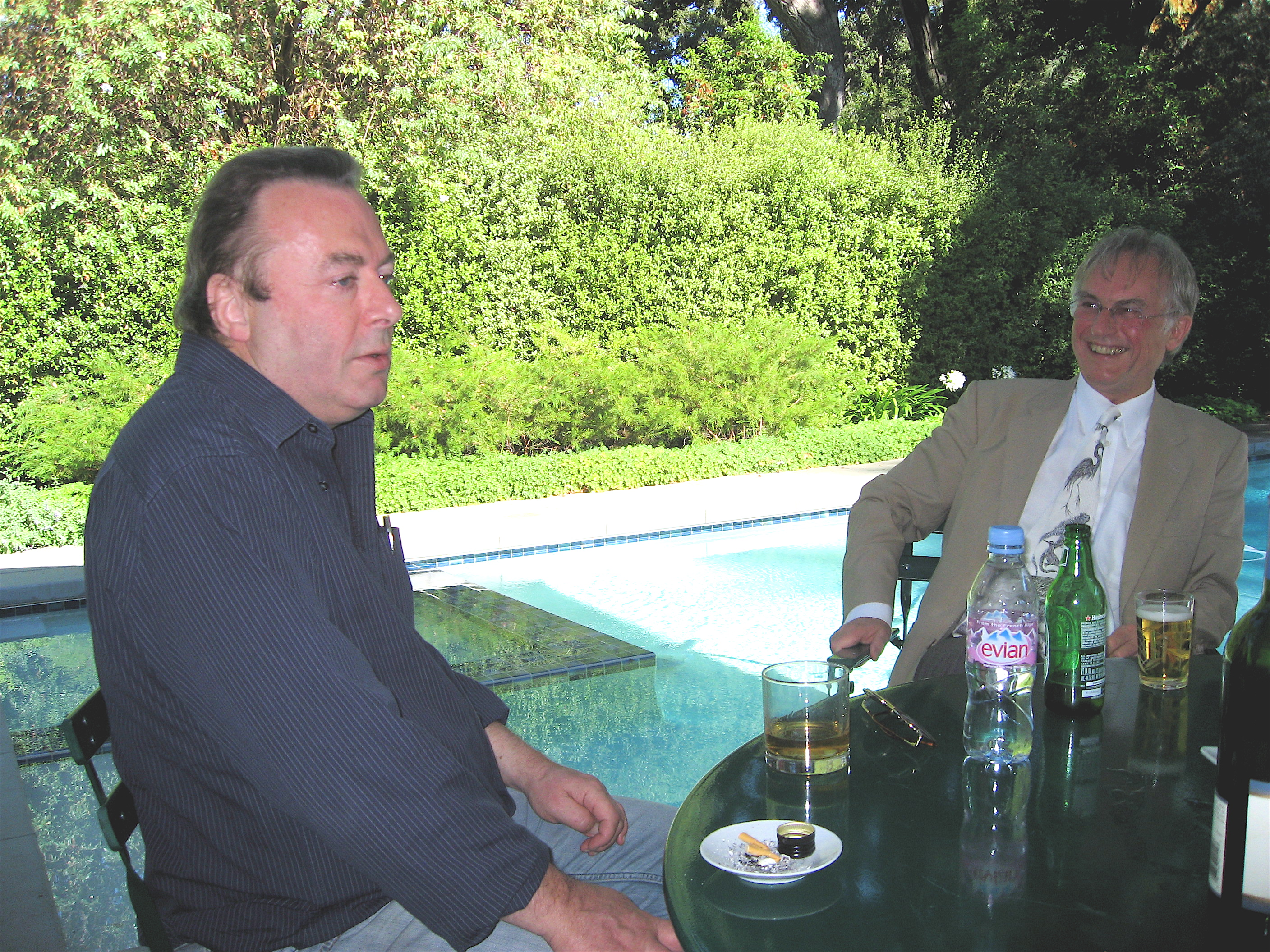 Just got back from a bright dinner with Richard Dawkins at the pad of Christopher Hitchens (left), author of God Is Not Great: How Religion Poisons Everything , currently #2 on NYTimes Bestseller list. Thanks to David Cowan for organizing the soiree after Dawkins’ talk at Kepler’s.